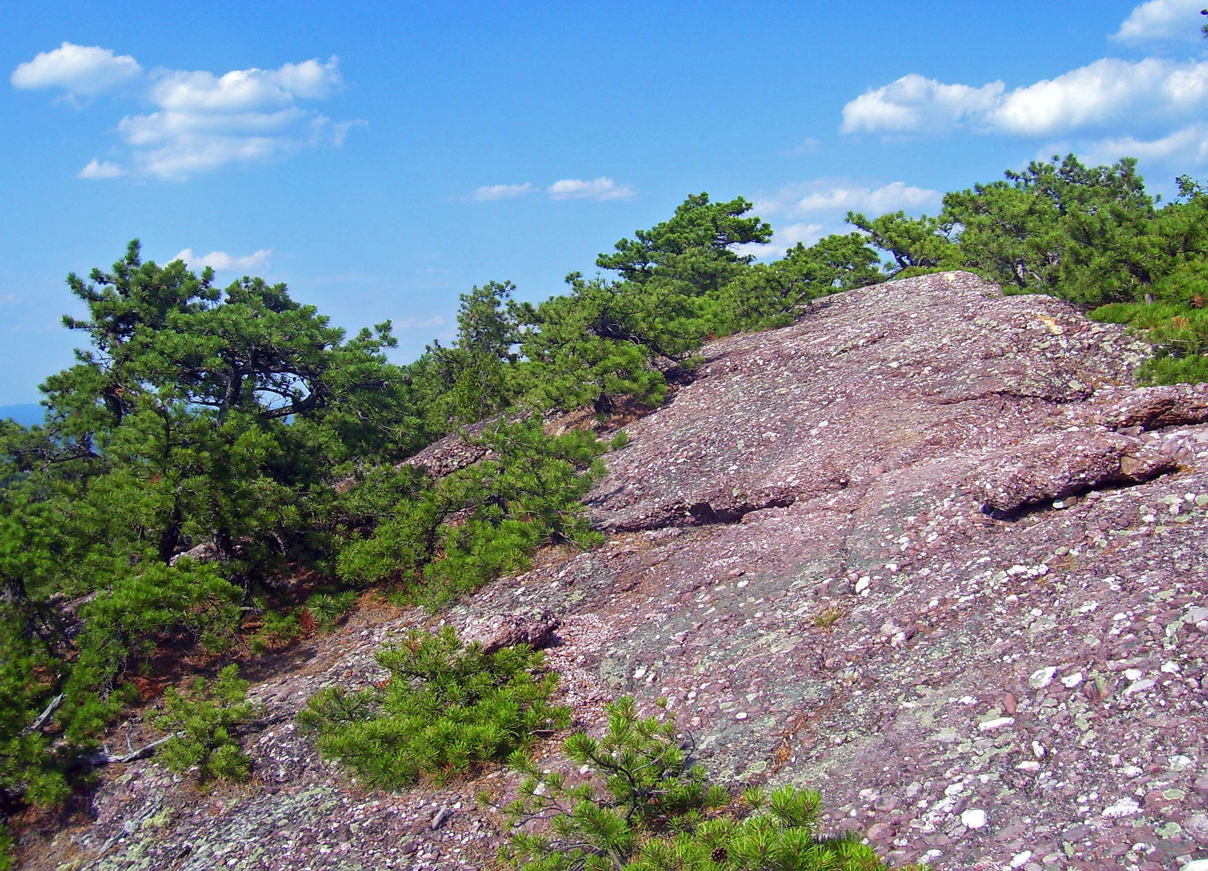 Pitch pine and conglomeratic rock typical of Schunemunk Mountain. Geological details: The Schunemunk conglomerate (also spelled Schunnemunk or Skunnemunk) represents a Mid-Devonian terrestrial molasse deposit of the Acadian fold belt. The conglomerate has been folded subsequently during the Alleghenian orogeny, the last orogenic event in the Appalachian Mts. Green Pond outlier (downfaulted block with Paleozoic sediments surrounded by precambrian basement) of Orange Co., New York.